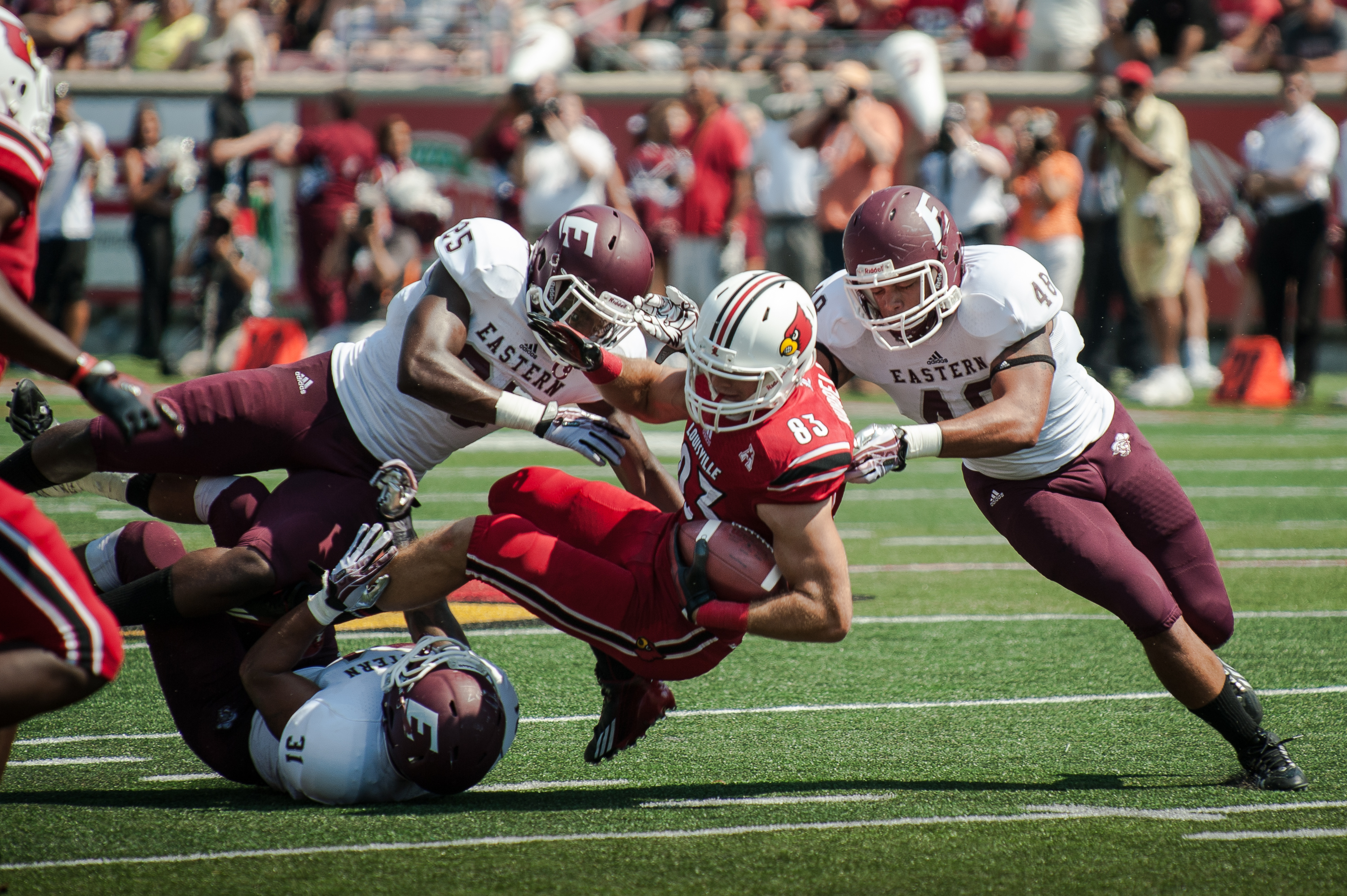 Cardinals tight end Ryan Hubbell fights for yardage during the University of Louisville-Eastern Kentucky University football game at Papa John’s Cardinal Stadium in Louisville, Ky., Sept. 7, 2013. Billed as Military Appreciation Day, the game featured a number of events to highlight the exceptional service of Kentucky Air National Guardsmen. (U.S. Air National Guard photo by Maj. Dale Greer)